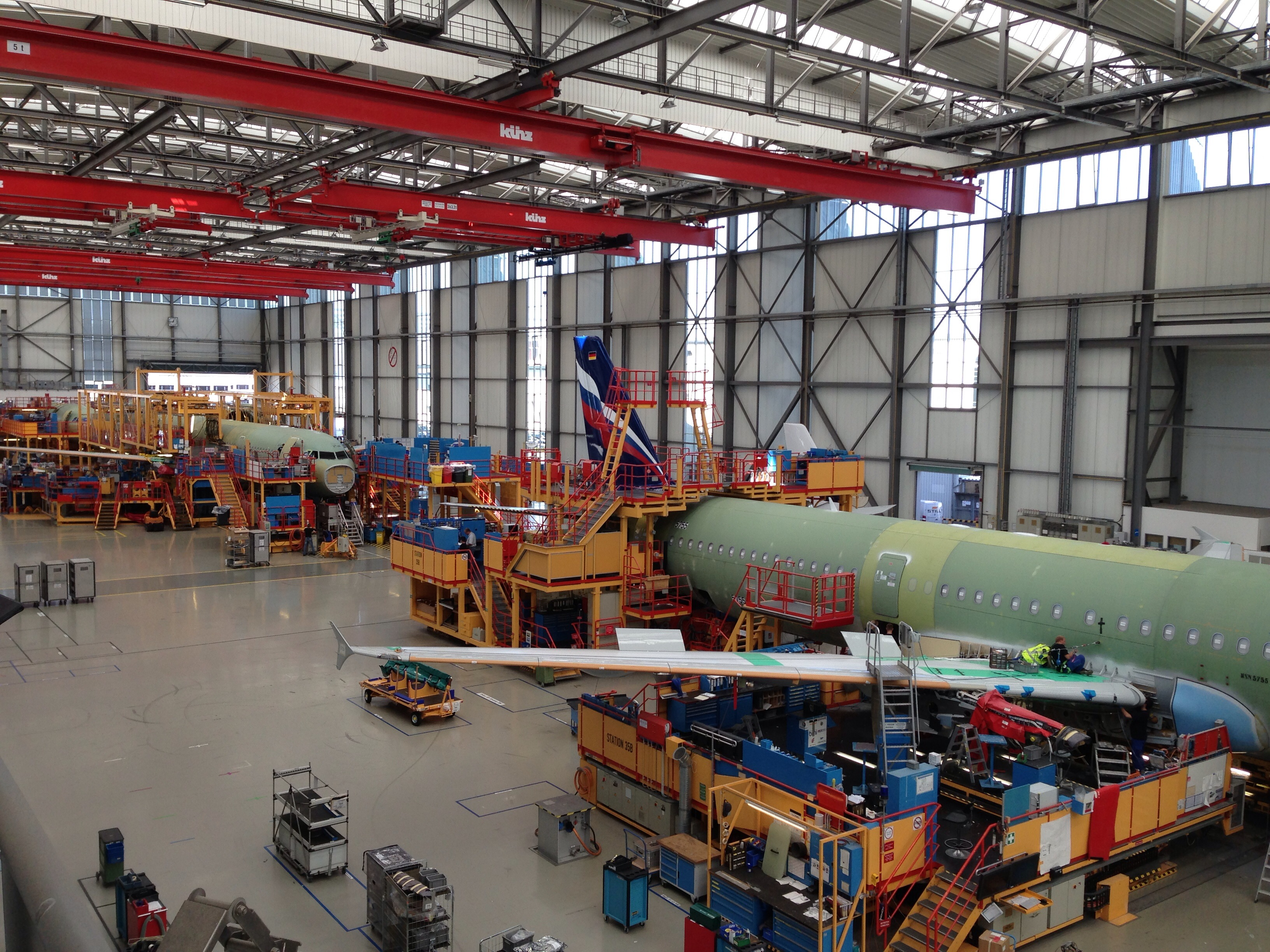 Final assembly line 3 at Airbus' Hamburg plant. The model for the Tianjin and under construction Mobile FALs.